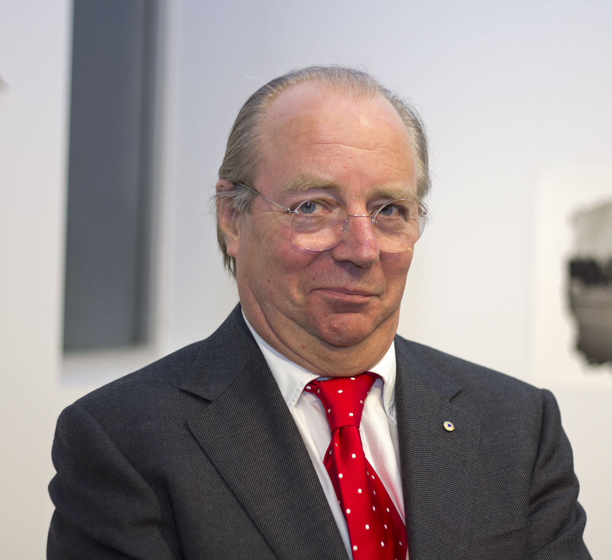 Tim Storrier at the launch of Gallery 43 at the Wagga campus of the TAFE NSW Riverina Institute.